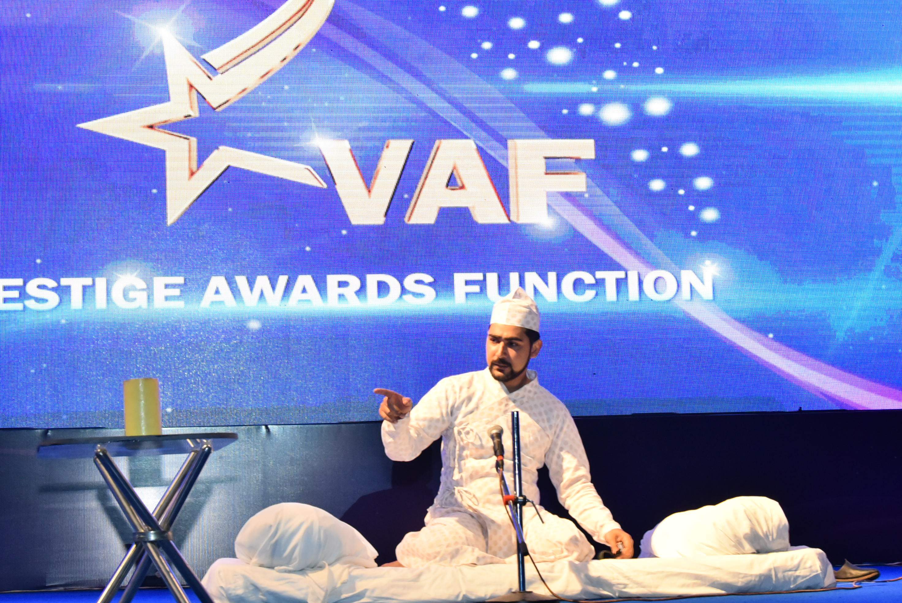 dastangoi artist called dastango this photo showing indian dastangoi artist Syed Sahil Agha